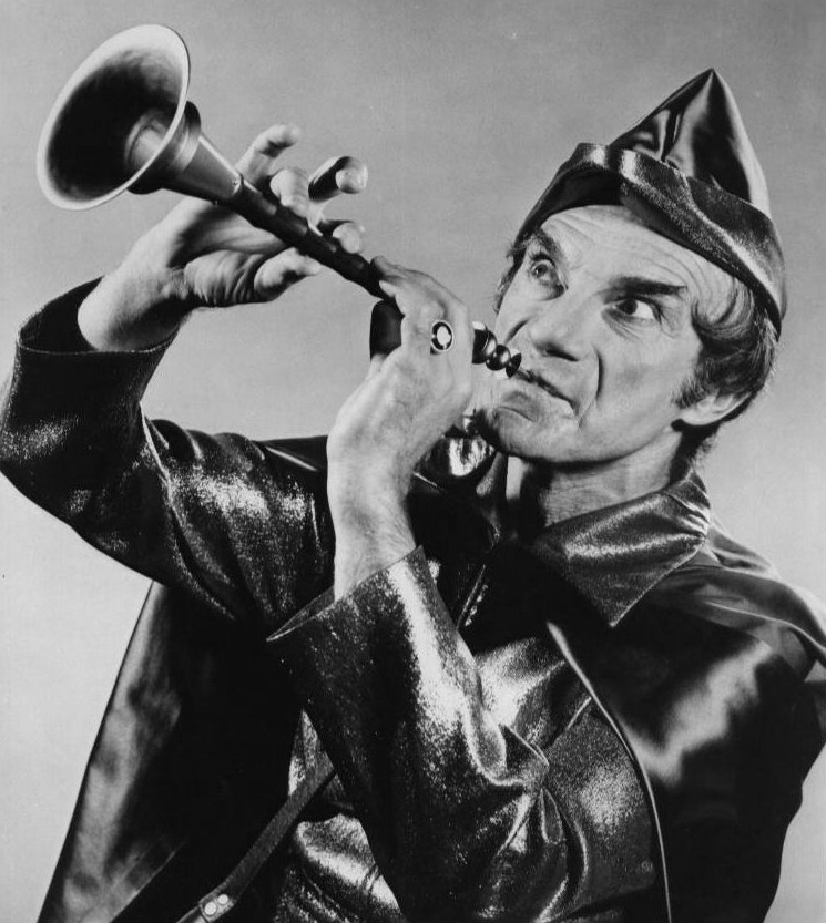 Publicity photo of American character actor, Jonathan Harris promoting his guest-starring role on the ABC television series Land of the Giants episode entitled "Pay the Piper".